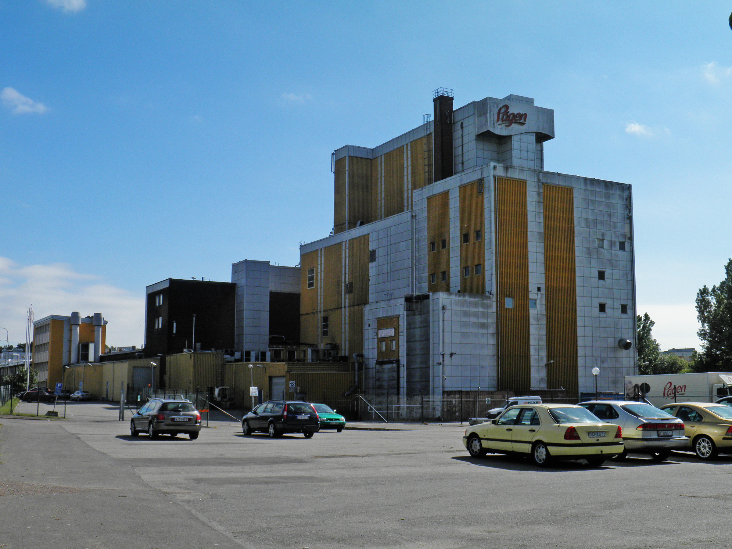 Industrial scale bakery. Formerly Pååls bröd, currently the Gothenburg branch of Pågen. Högsbo industrial park, Gothenburg Sweden.